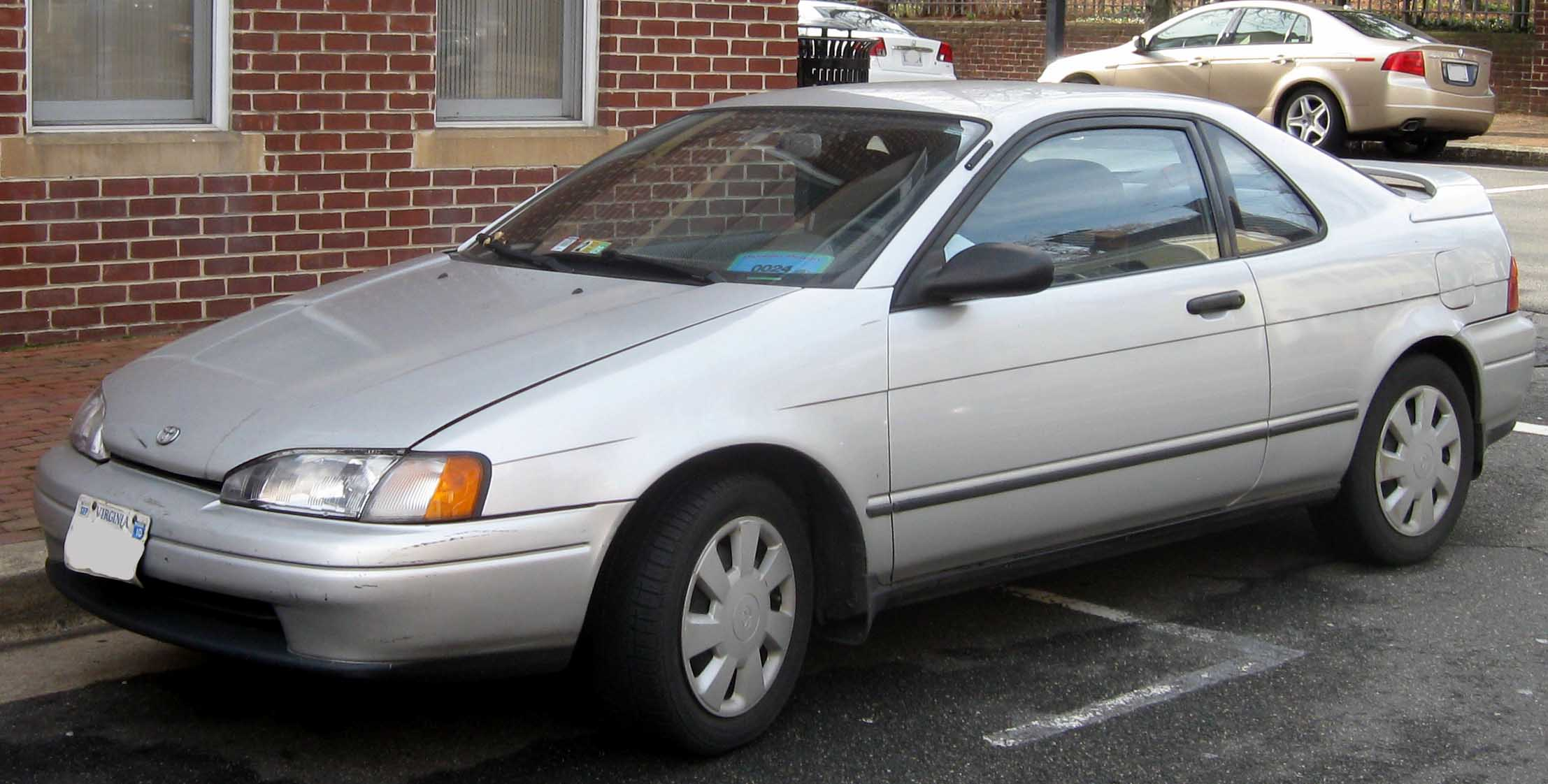 1992-1995 Toyota Paseo photographed in Alexandria, Virginia, USA.